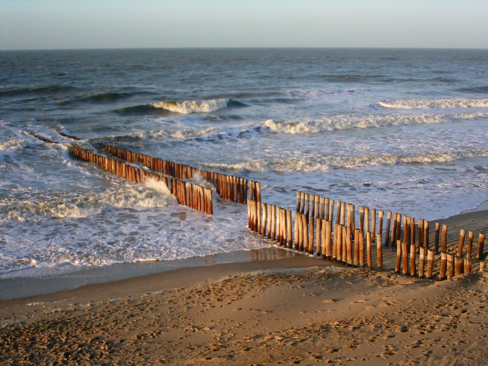 Beach in Zeeland, the Netherlands.